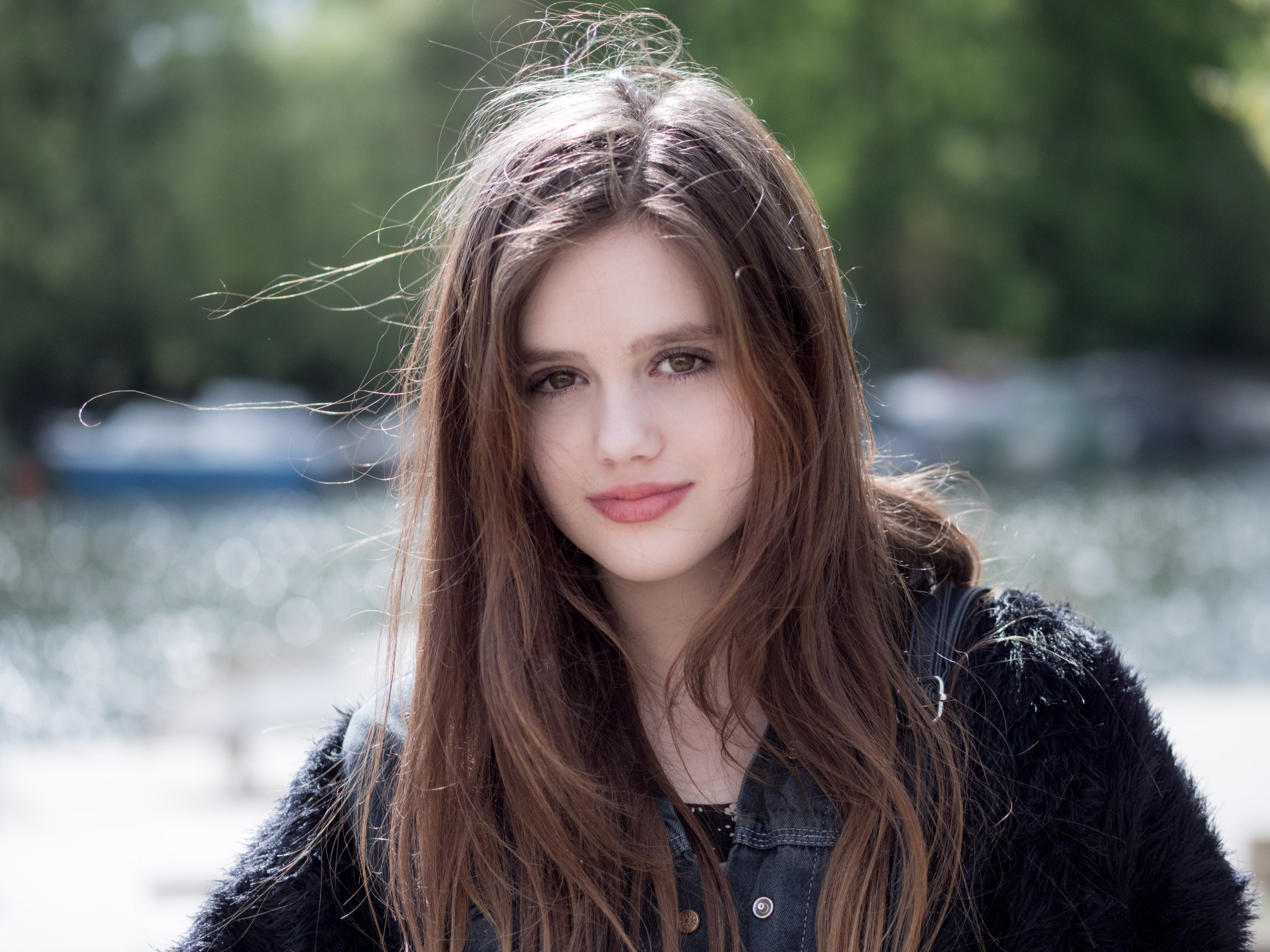 Aniya Wendel (born April 23, 2001) is a German child actress from Berlin.